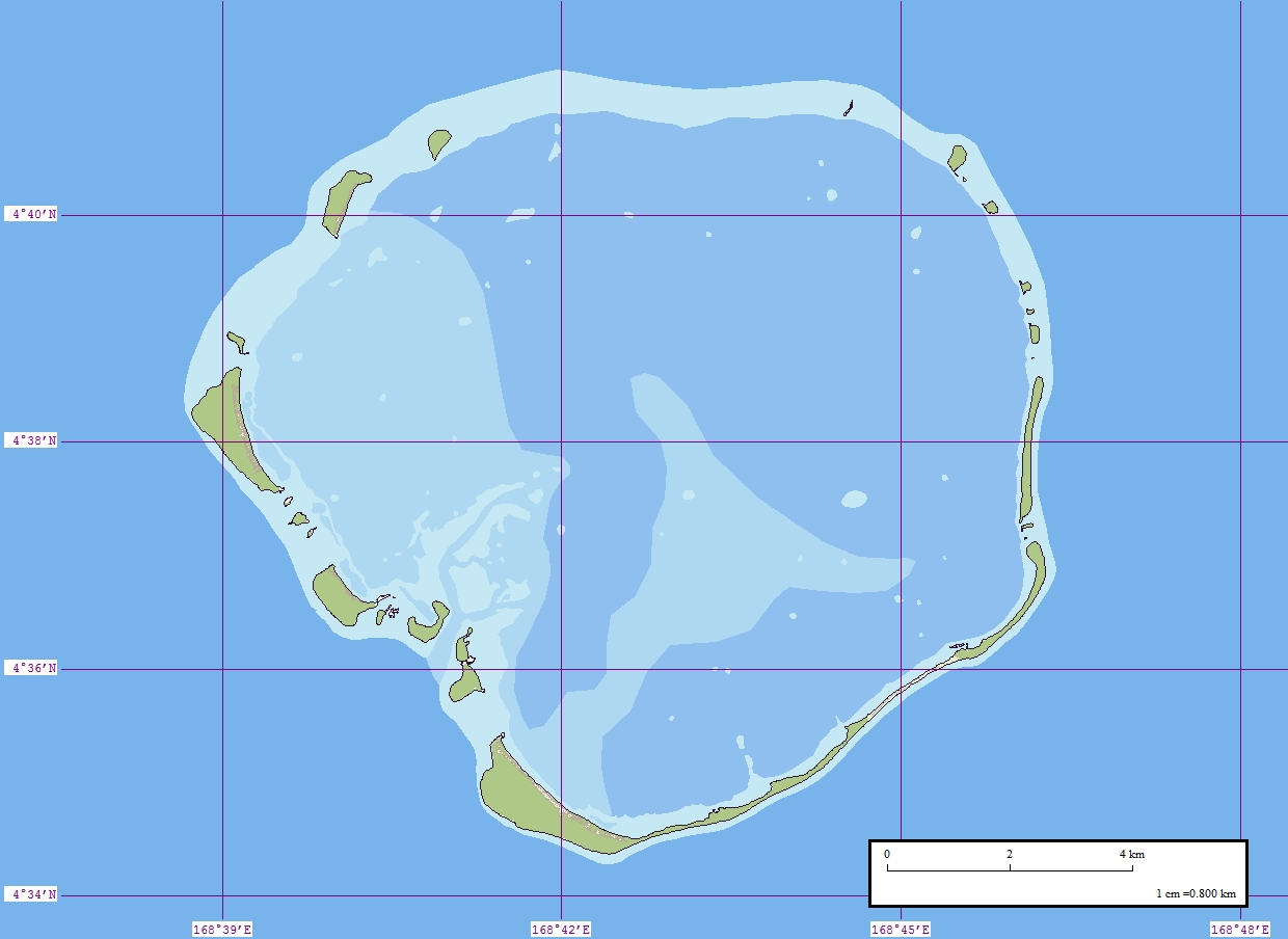 Map of Ebon Atoll, Marshall Islands